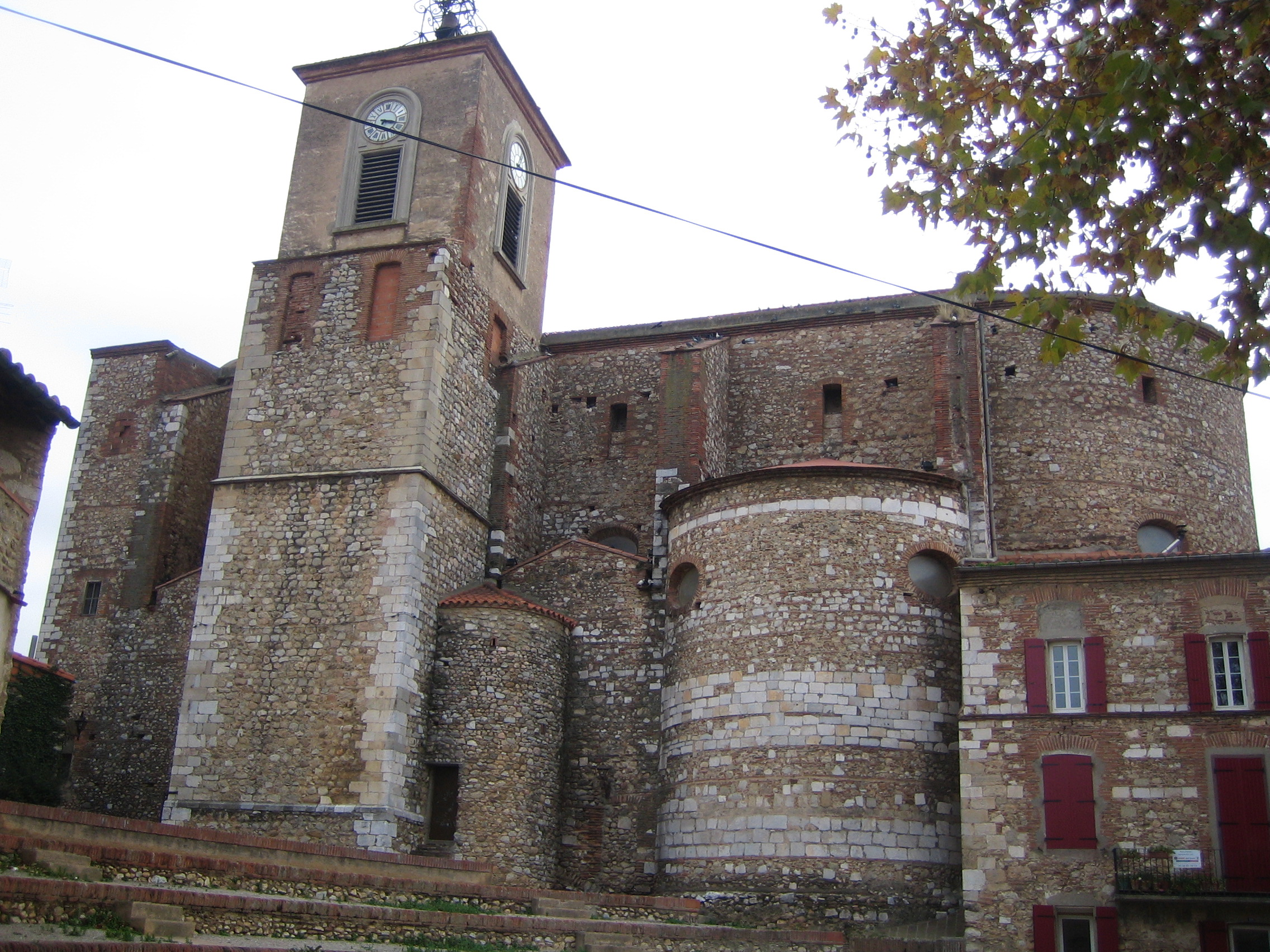 Church of Mare de Déu de la Victòria, Tuïr (Rosselló)